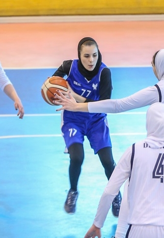 Iranian Women Basketball league play-off